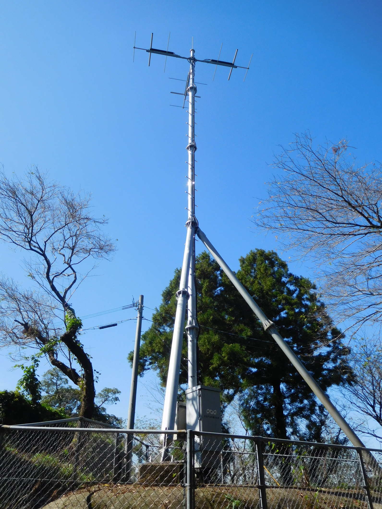 NHK-FM (JOHG) Sueyoshi Repeater (Soo City, Kagoshima, Japan)